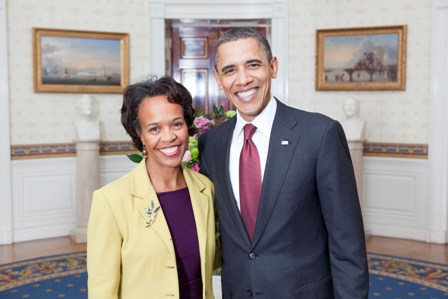 Bisa Williams, U.S. diplomat with President Obama. As of 2010, Williams is the U.S. ambassador to Niger.